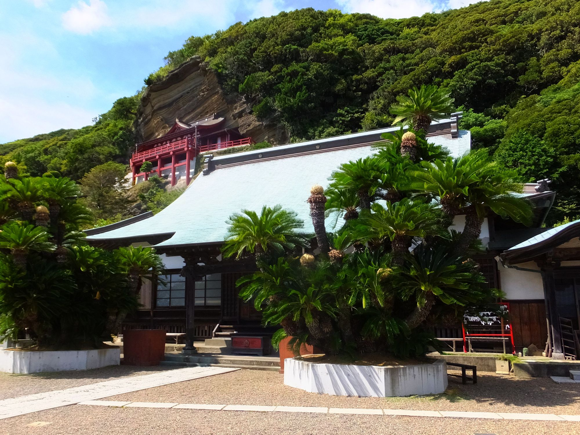 Main hall of Daifuku-ji temple in Tateyama, Chiba Prefecture